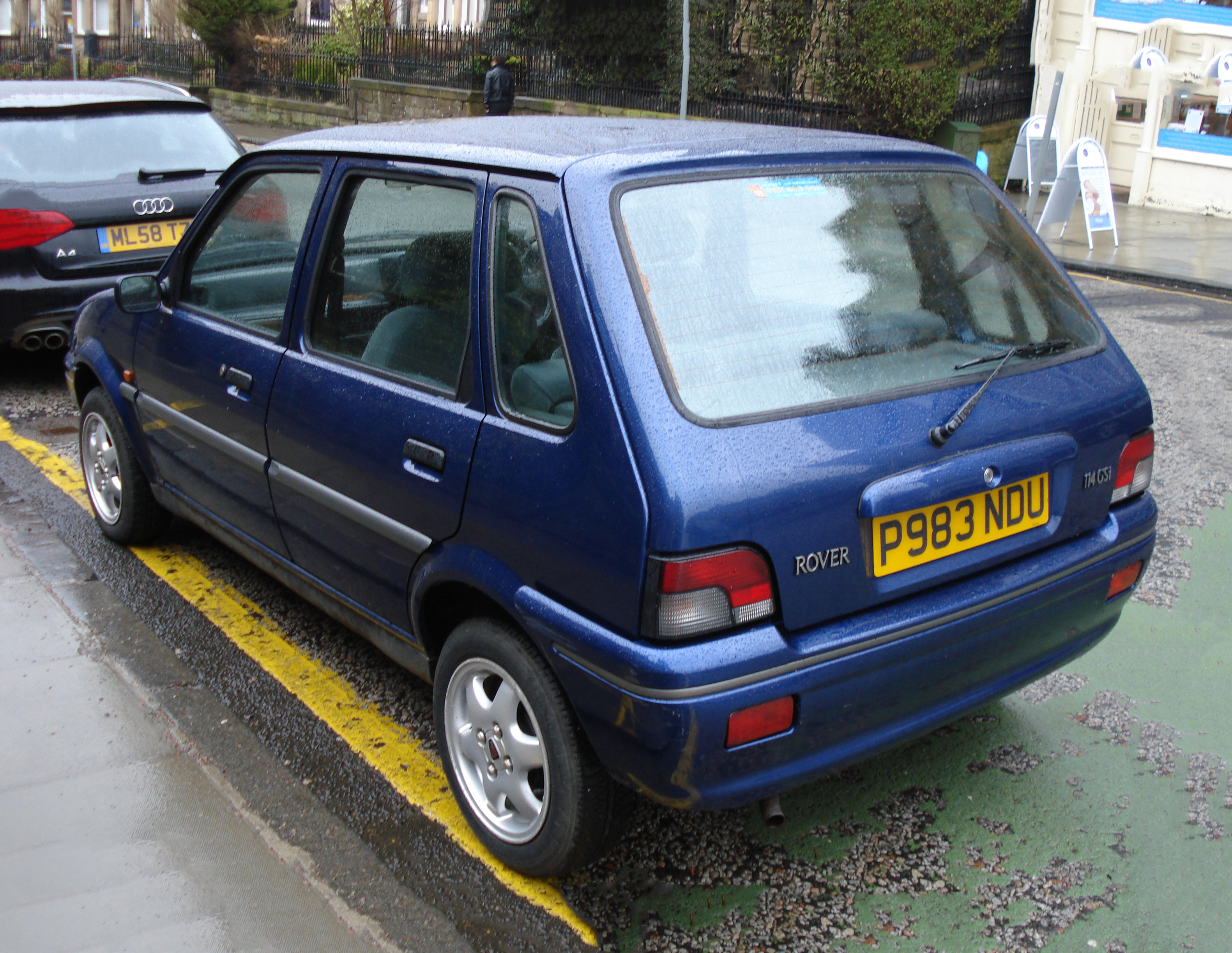 A 1997 Rover 114 GSi